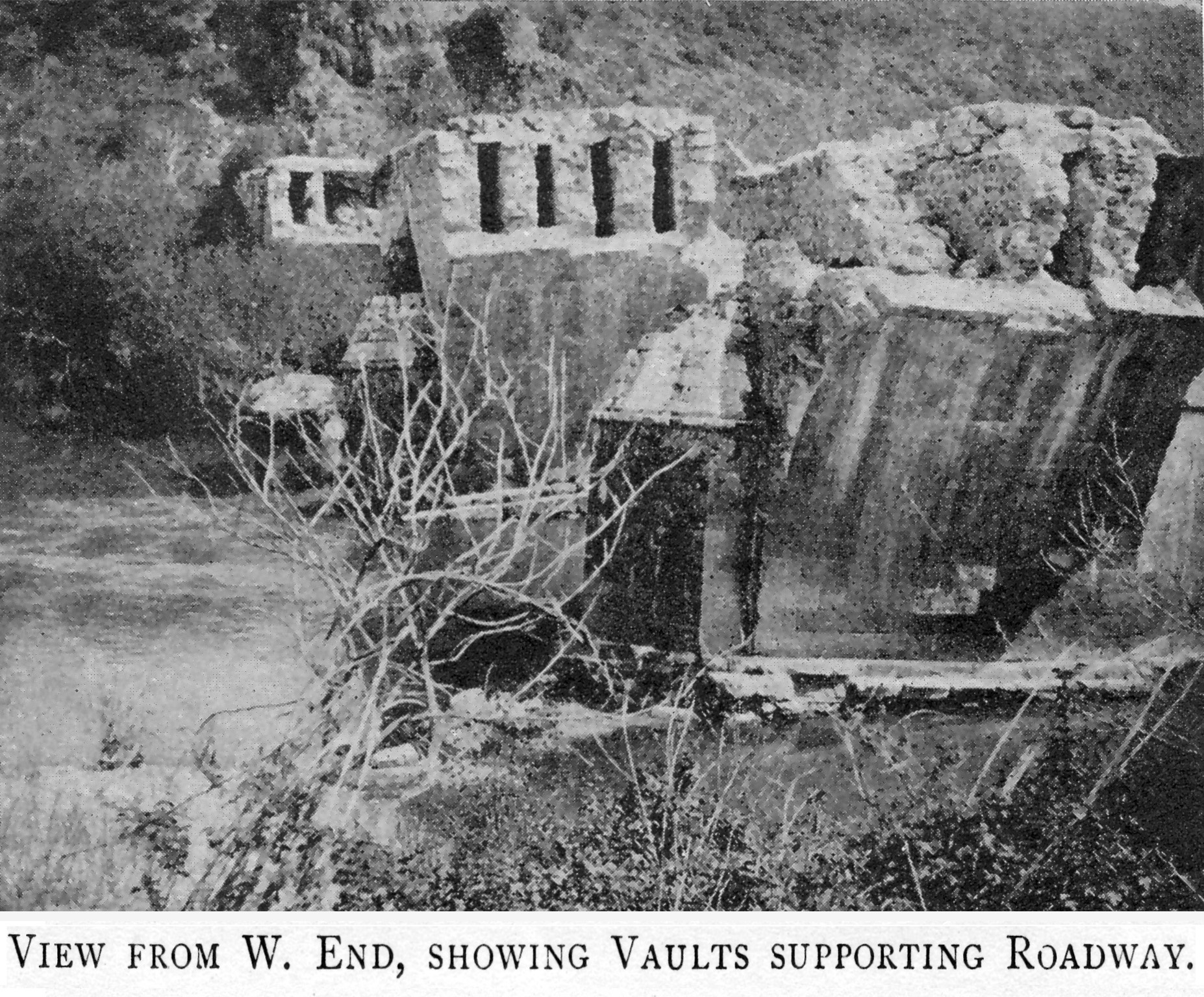 Roman bridge over the Aesepus river (Gönen Çay), Mysia, Turkey. It is notable for its advanced hollow chamber system which has also been employed in other Roman bridges in the region. In a field examination carried out in the early 20th century, the four main vaults of the bridge were found in ruins, while nearly all piers and the seven minor arches had still remained intact; the present state of preservation is unknown.